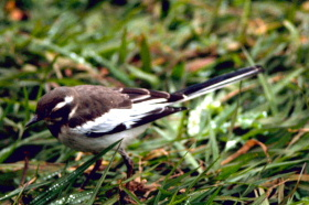 An African Pied Wagtail in Kenya